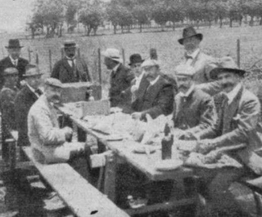 Photo of the lunch held at Puente Alsina to celebrate the opening of Ferrocarril Midland's passenger train service.